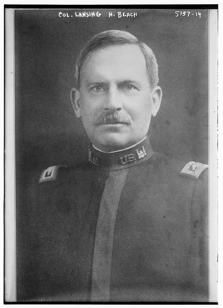 Lansing Hoskins Beach in 1920